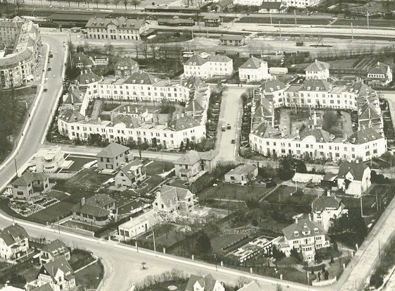 De Engelske Rækkehuse (Det Engelske Villakvarter) at Christiansholm in Klampenborg, Gentofte Municipality, Copenhagen, Denmark